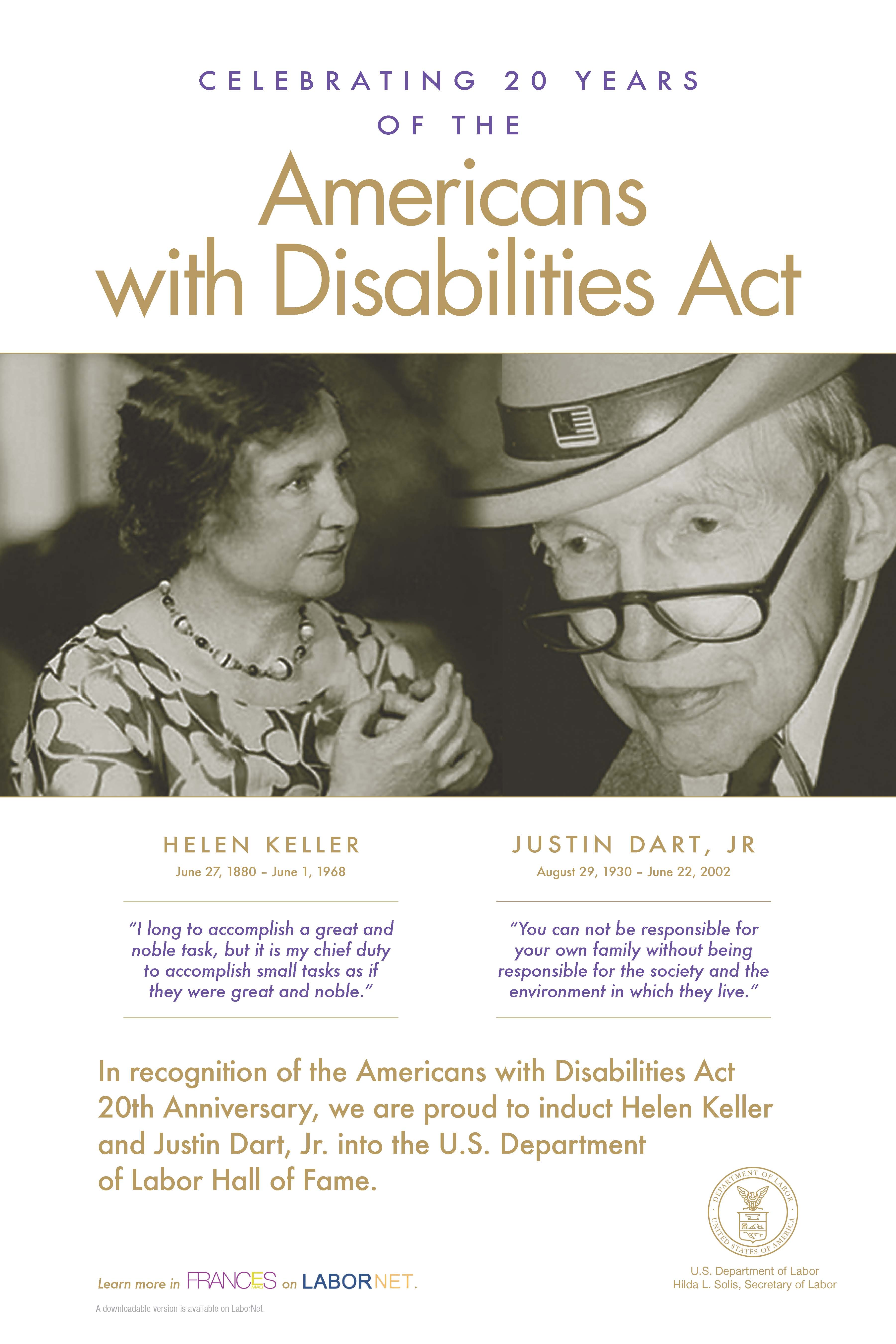 Poster by the United States Department of Labor celebrating the 20th anniversary of the Americans with Disabilities Act of 1990 featuring Helen Keller and Justin Dart, Jr.